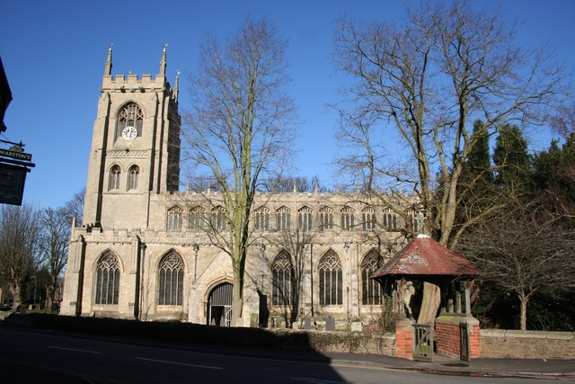 Parish church of SS Peter and Paul, Kirton, Lincolnshire, seen from the south